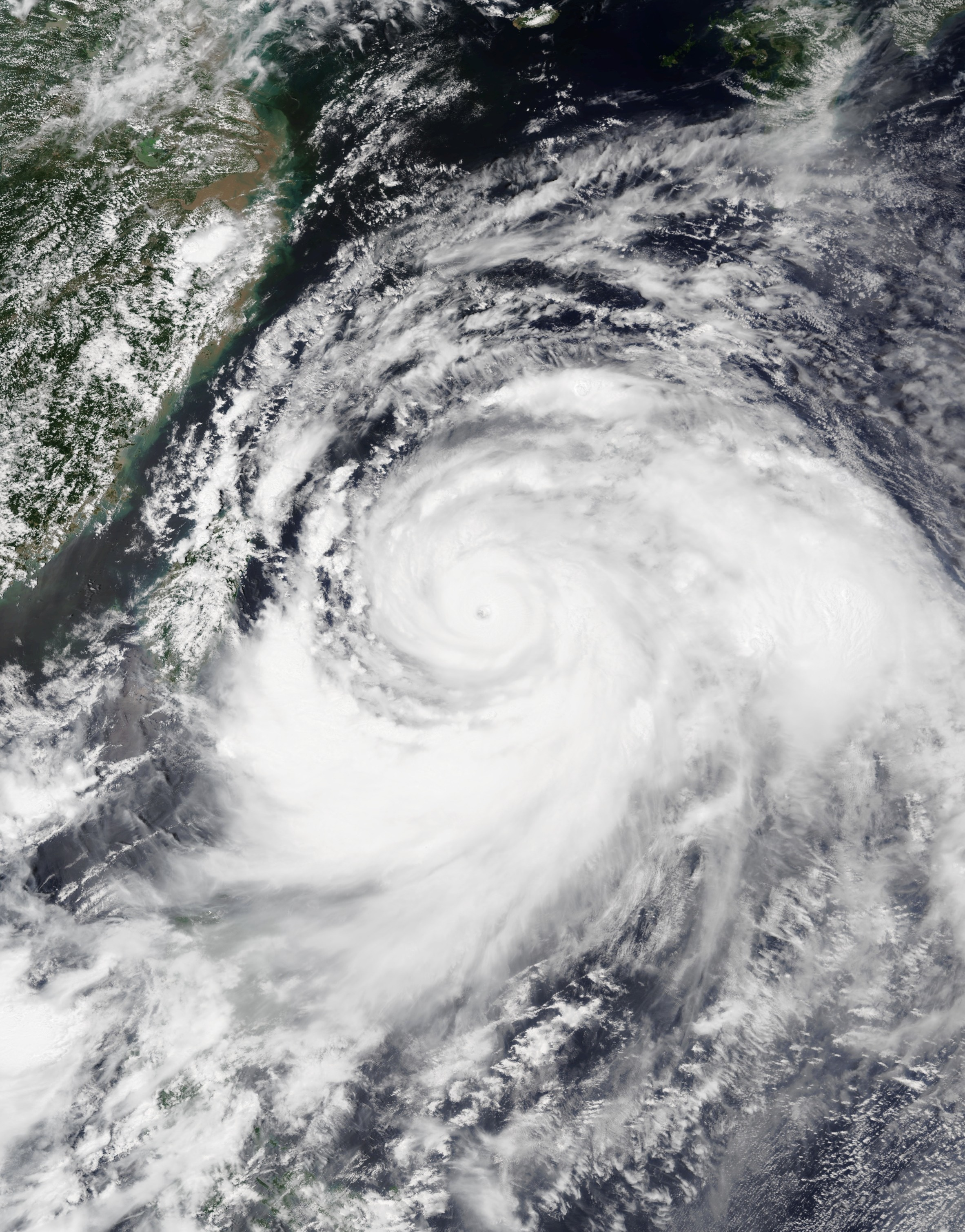 Typhoon Lekima (10W) near peak strength to the east of Taiwan on August 8, 2019